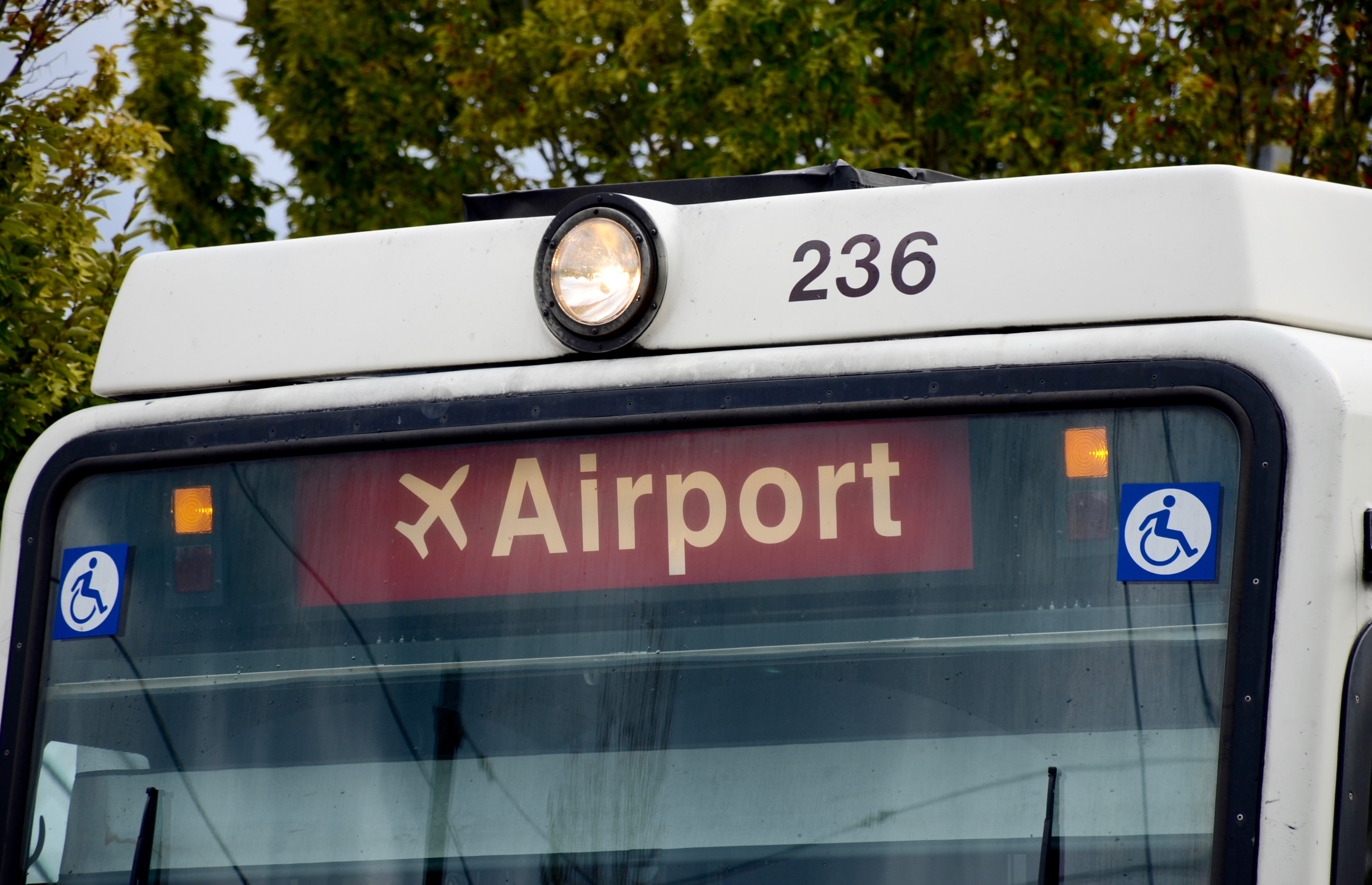 The destination sign display for "Airport", on a rollsign-type sign in a Siemens SD660 LRV (light rail vehicle) on TriMet's MAX Red Line, in greater Portland, Oregon. The inclusion of a pictogram of an airplane helps travelers whose English is limited.